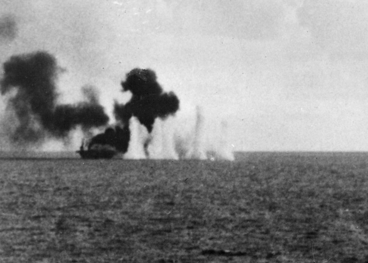 The U.S. Navy escort carrier USS Gambier Bay (CVE-73) is straddled by fire from Japanese surface ships during the Battle off Samar.